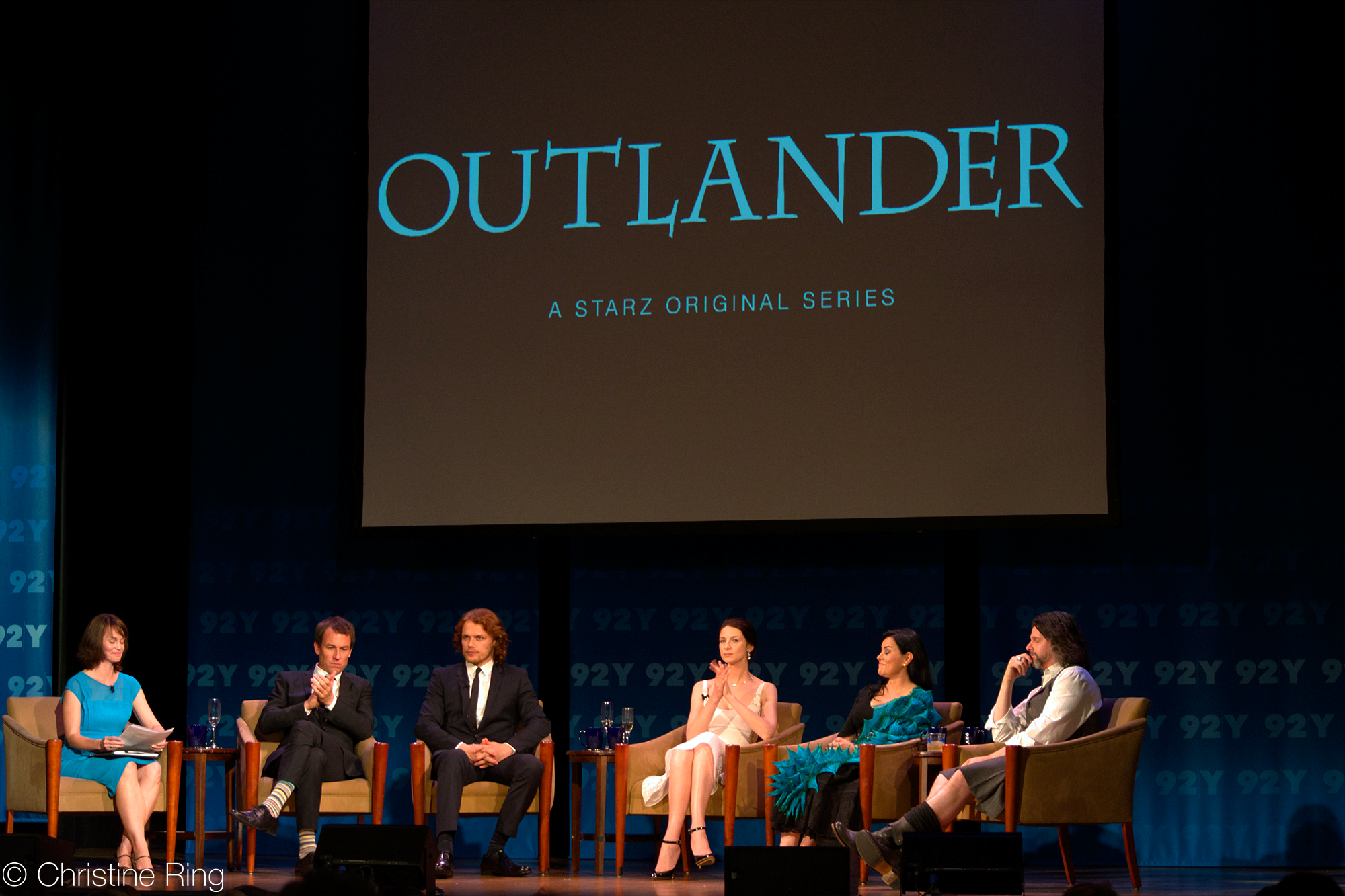 Outlander premiere episode screening at 92nd Street Y in New York